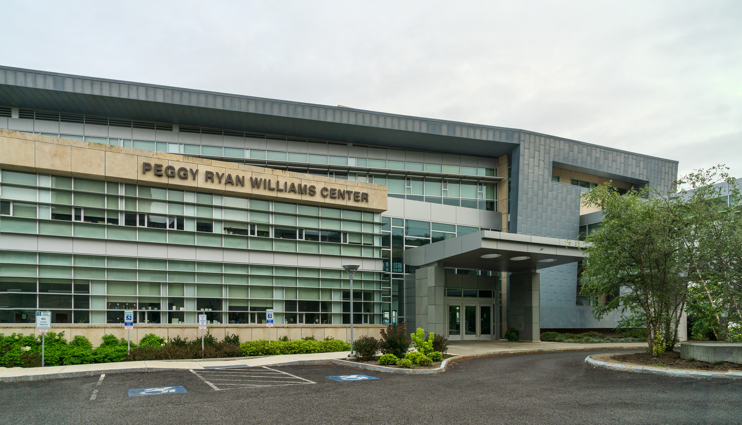 Peggy Ryan Williams Center, Ithaca College. Designed by HOLT Architects. Dedicated Thursday, Oct. 8, 2009.